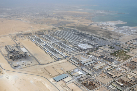 Aluminium Bahrain (Alba)